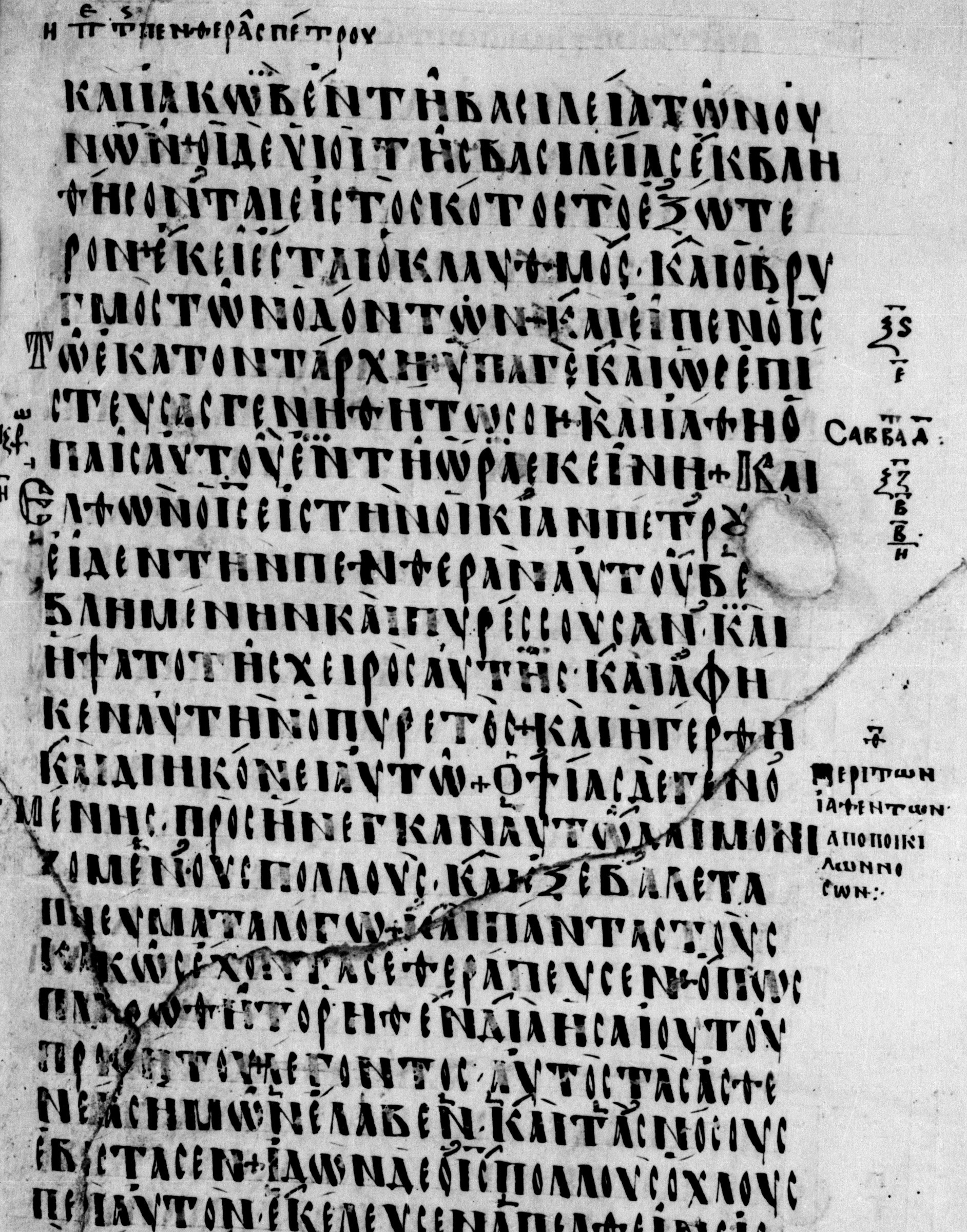 Codex Tischendorfianus IV with text of Matthew 8:11-18